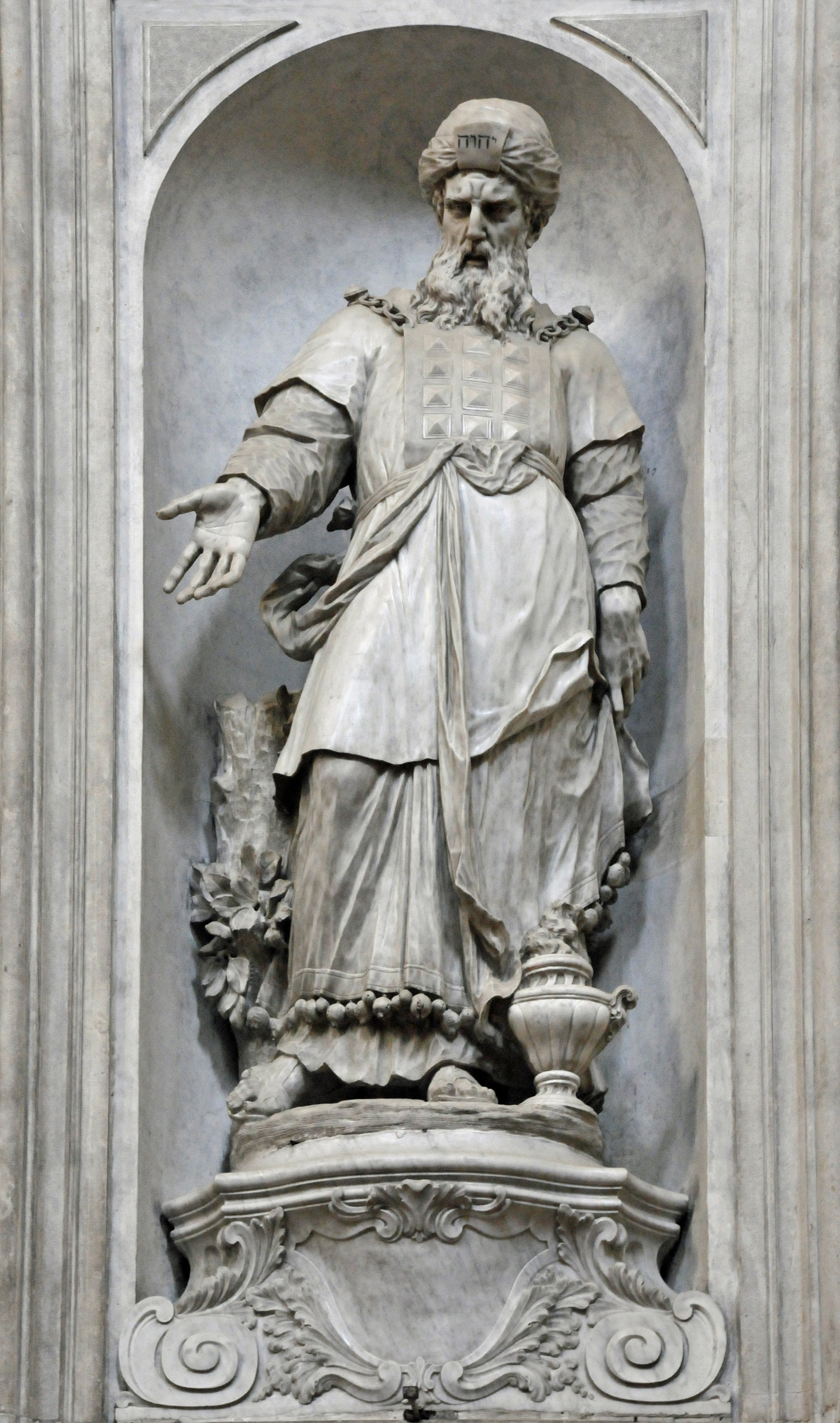 Aaron in Santa Maria del Rosario (Venice) by Giovanni Maria Morlaiter, 1750-51. Aaron is dressed as prescribed in Exodus 28: the breastplate with 12 stones, secured by gold chains and worn over the ephod, and the mitre with the gold plate and Hebrew inscription meaning "Holiness to the Lord." One thing he does not wear here is the "holy crown" of Exodus 29:6. The vessel with the flame at Aaron's left foot should be the censer for the incense offering prescribed in Exodus 30:6-9.